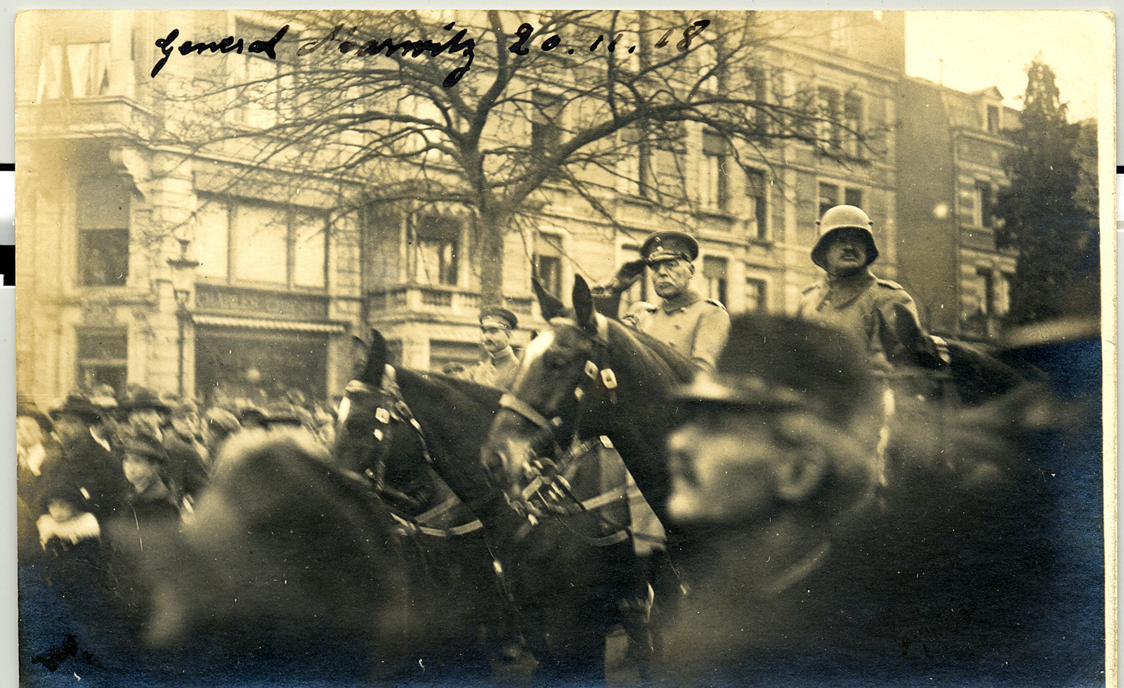 20 november 1918: German troops under commanding cavalry general Georg von der Marwitz on their retreat through Luxembourg City .